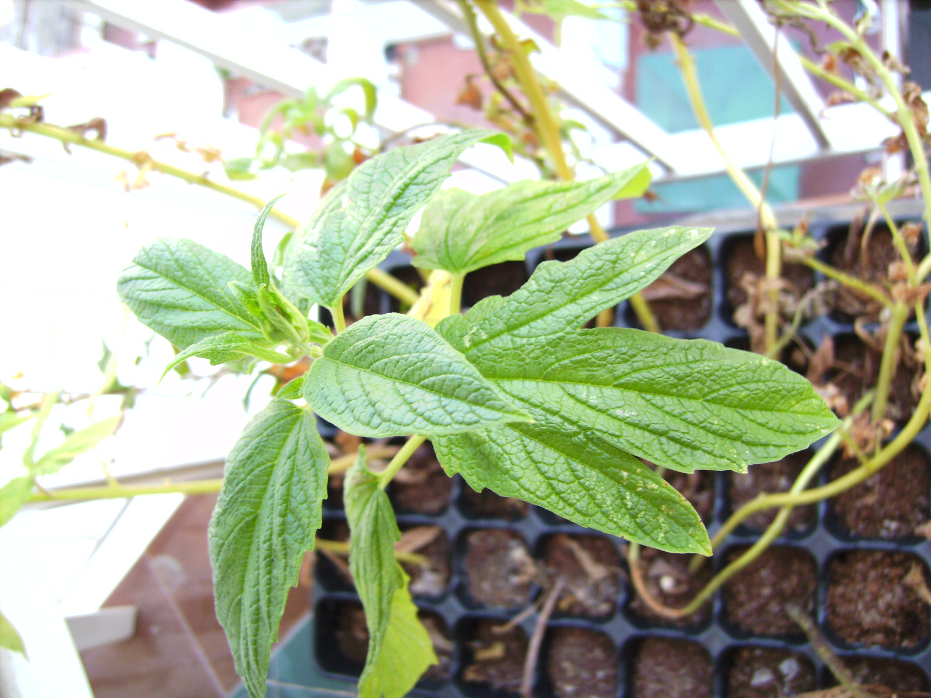 Sesame plant (Sesamum indicum) in a nursery in Barcelona